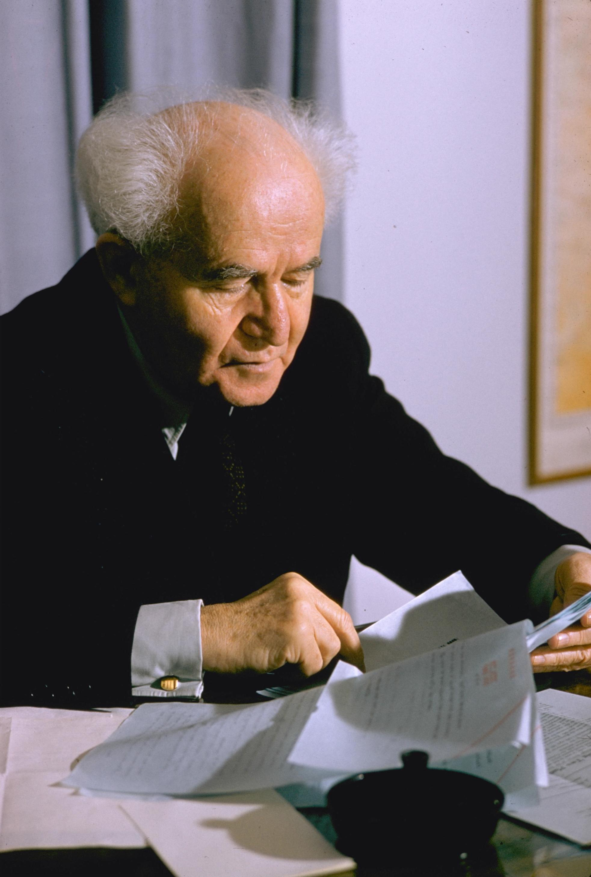 David Ben Gurion, Israel's Prime Minister and Defence Minister. January, 1959